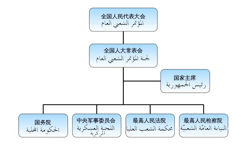 State organs of the People's Republic of China